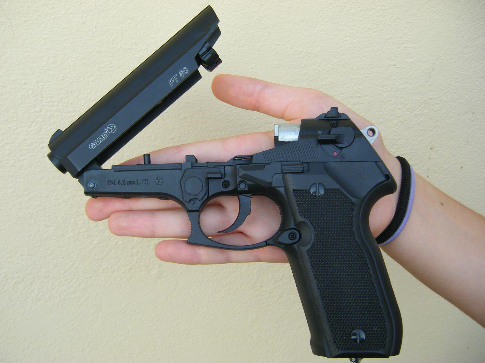 AIR GUN OPEN 2